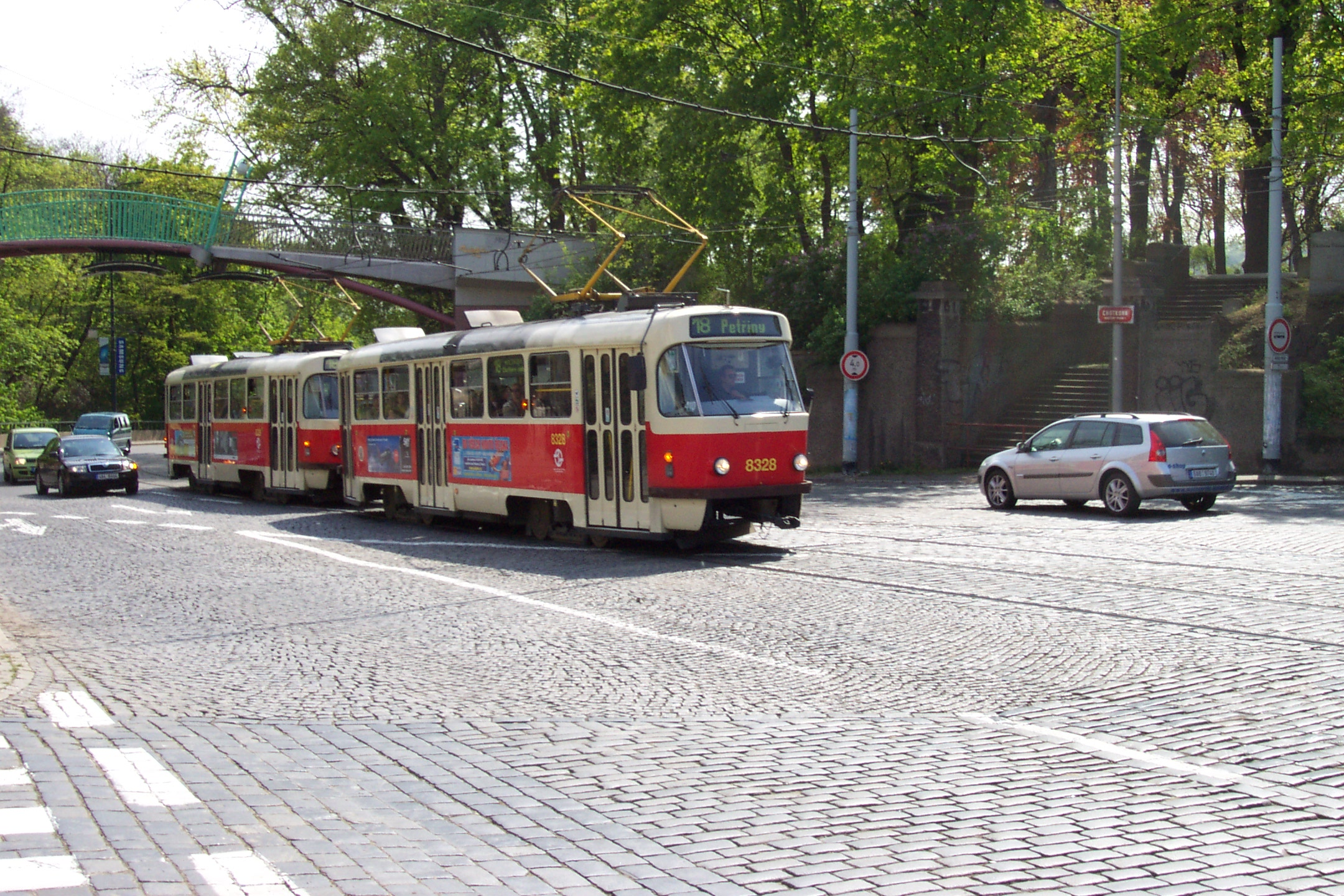 Prague, Hradčany, Tram type T3P at Chotkovy sady